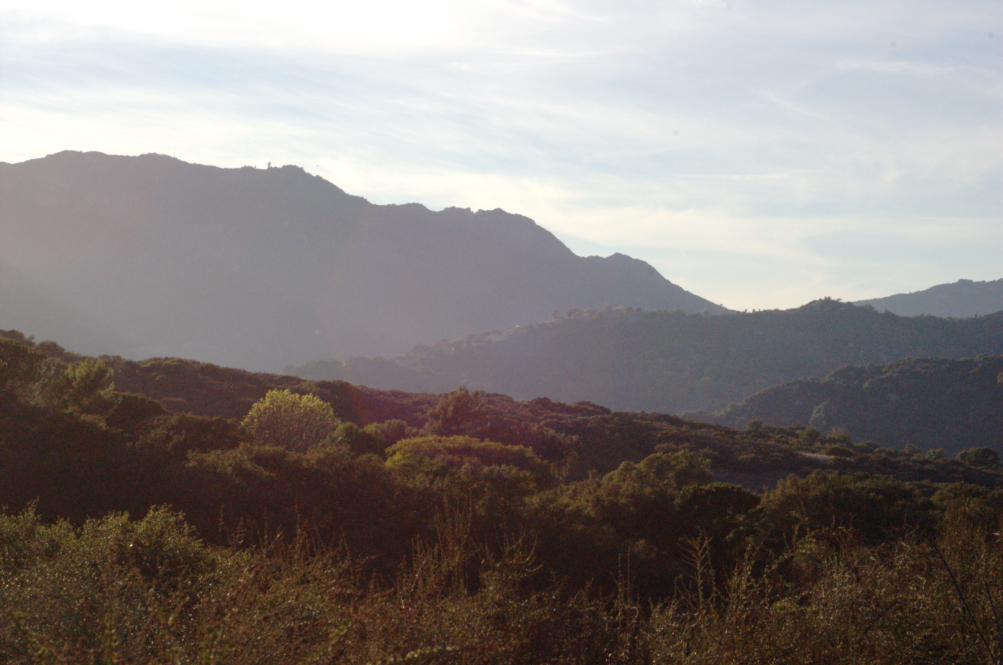 View of Topanga State Park and Topanga Canyon — from one of the hiking trails in the Santa Monica Mountains National Recreation Area.